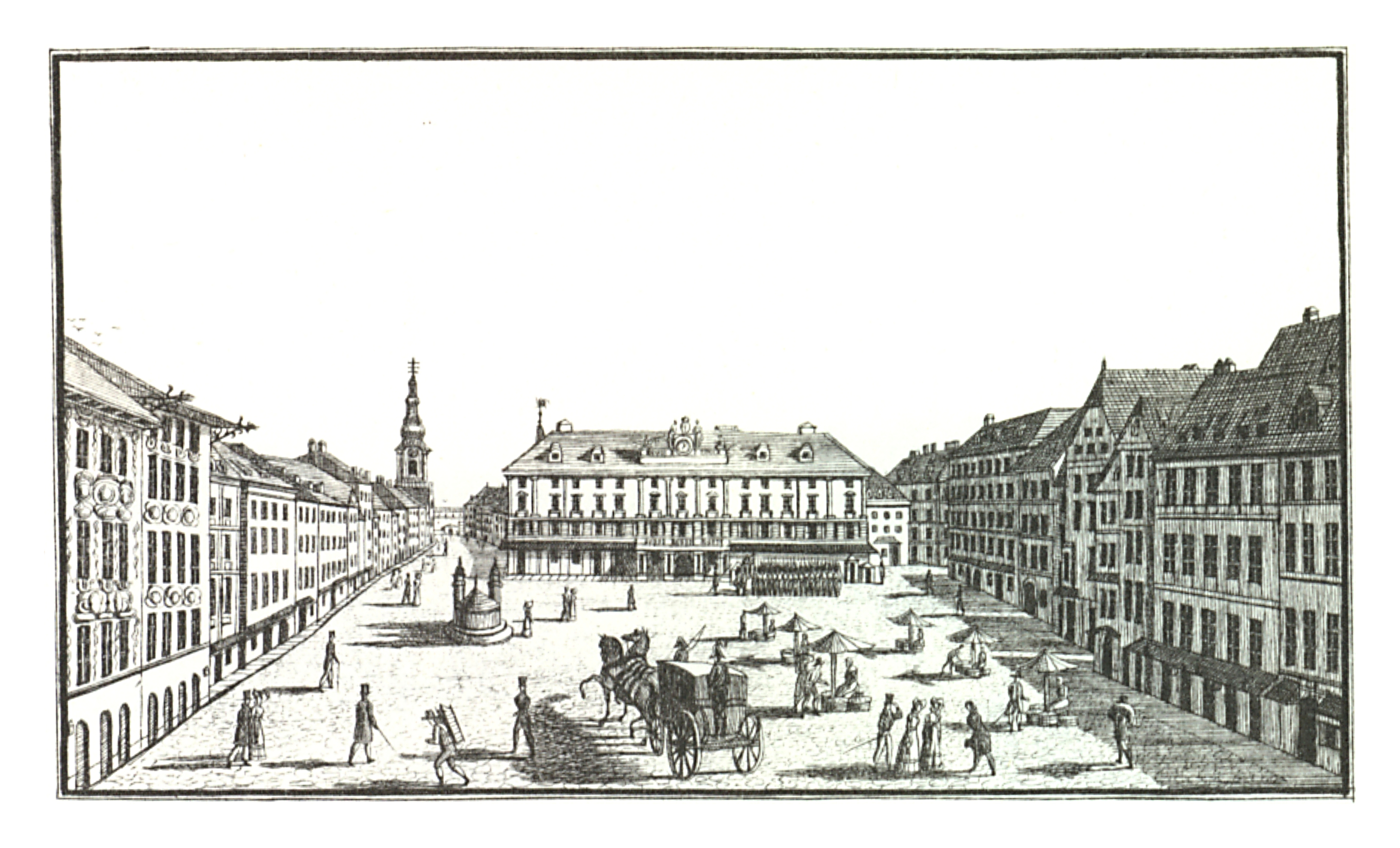 J. F. Kaiser - lithographirte Ansichten der Steyermärkischen Städte, Märkte und Schlösser, Graz 1824-1833 Joseph Franz Kaiser (1786–1859) Alternative names J. F. KaiserDescriptionAustrian printer and editorDate of birth/death 11 March 1786 19 September 1859Location of birth/death Graz (Styria) GrazAuthority control : Q1499963 VIAF: 30629353 ISNI: 0000 0000 3083 0153 LCCN: n87141671 GND: 129880159 NLP: A24960305 WorldCat creator QS:P170,Q1499963 . Scanprojekt Community Projektbudget 2012 This scan or this PDF-file was created within the GLAM-project Bookscanning, supported by Wikimedia Germany and Wikimedia Austria as a part of the community-project to capture books, documents and pictures which are not eligible to copyright or for which the copyright has expired. This document describes or depicts an object which is located in Austria today. Send requests for uncompressed scans to Hubertl. This work is in the public domain in its country of origin and other countries and areas where the copyright term is the author's life plus 100 years or less. You must also include a United States public domain tag to indicate why this work is in the public domain in the United States. This file has been identified as being free of known restrictions under copyright law, including all related and neighboring rights.